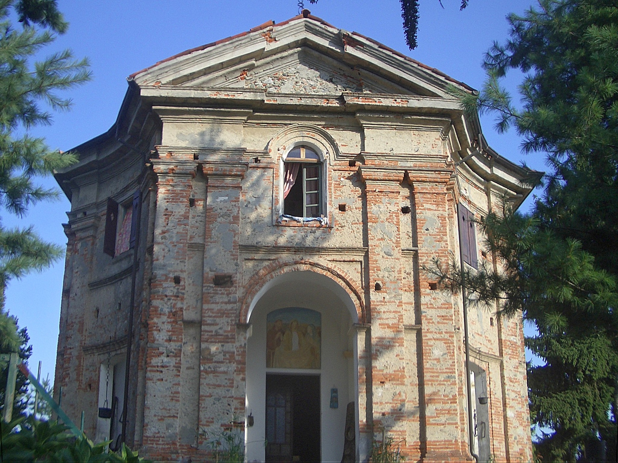 Agliè (province of Turin), church called Santa Maria della Rotonda